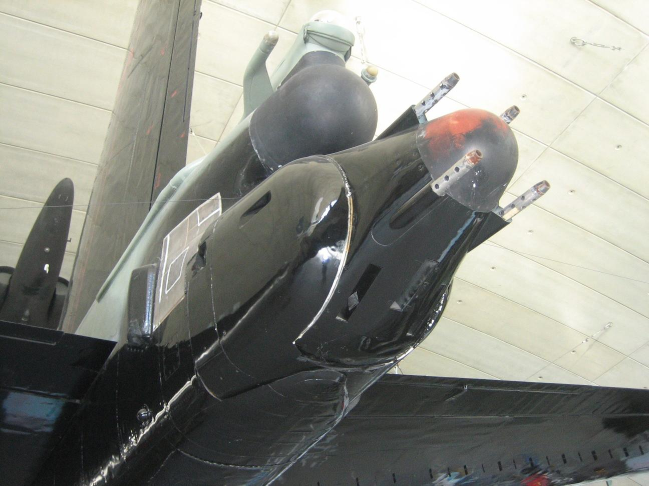 B52 tail turret